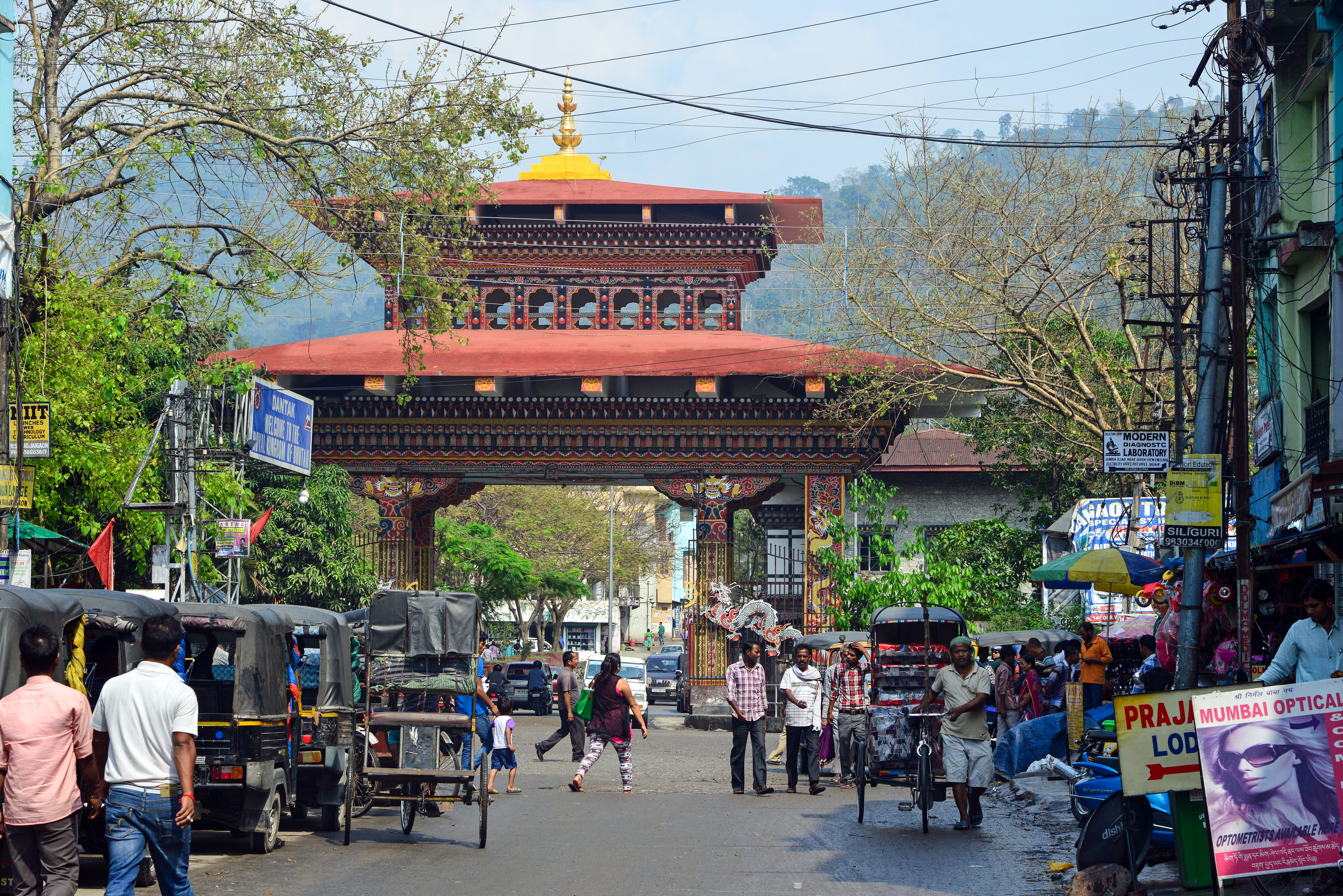 Bhutan gate, Jaigaon. Indian side looking towards Bhutan